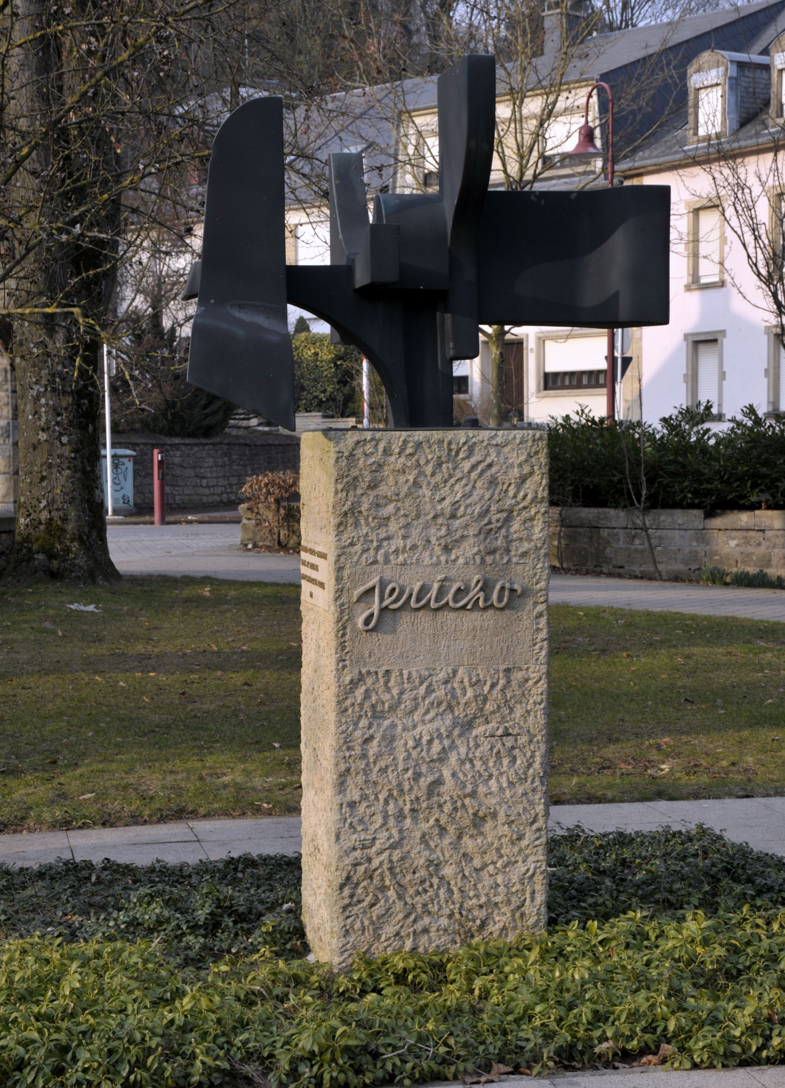 "Jericho Stela", Park Sauerwis, Rumelange